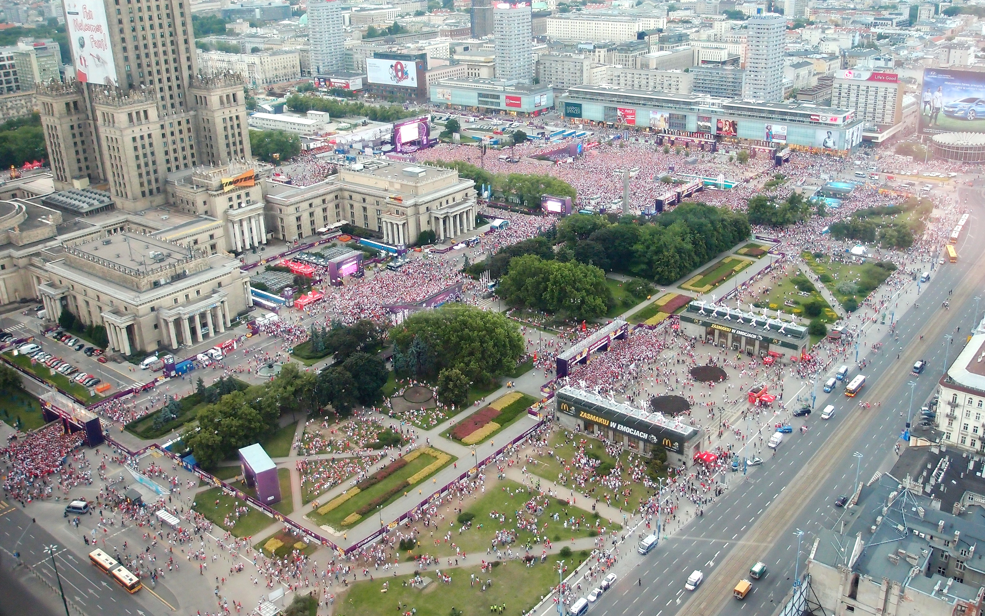 Polish football fans in Warsaw Fanzone, during Poland vs Russia match, UEFA Euro 2012 (from the Marriott skybar).